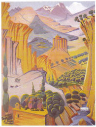 Martiros Saryan postal card, 2005